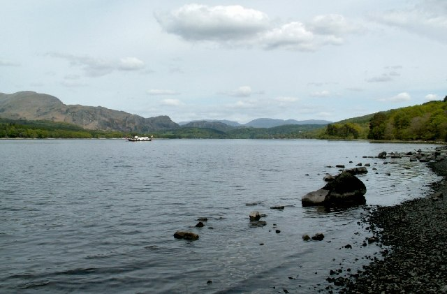 Coniston Water shoreline with the steam yacht gondola in the distance.